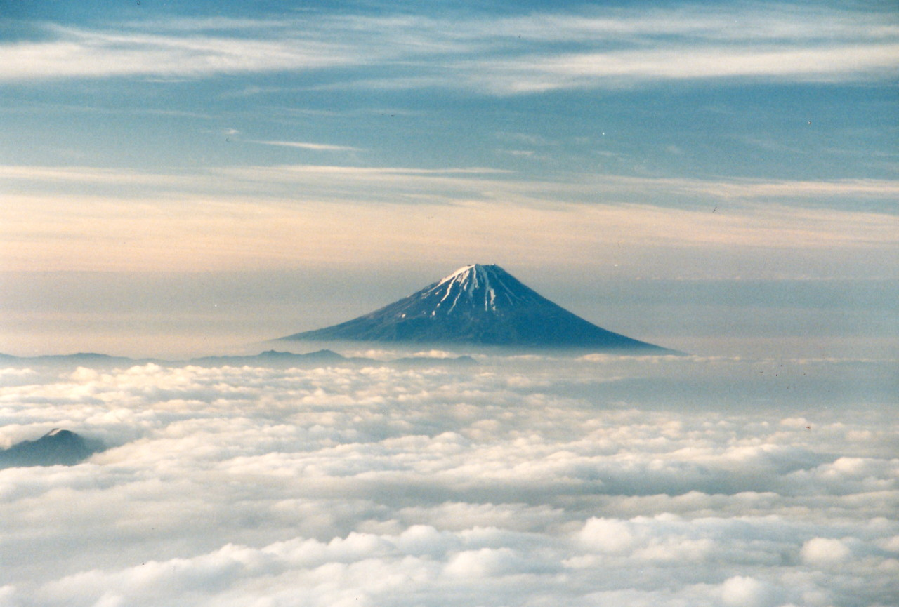 Mount Fuji from Mount Aka (Yatsugatake).